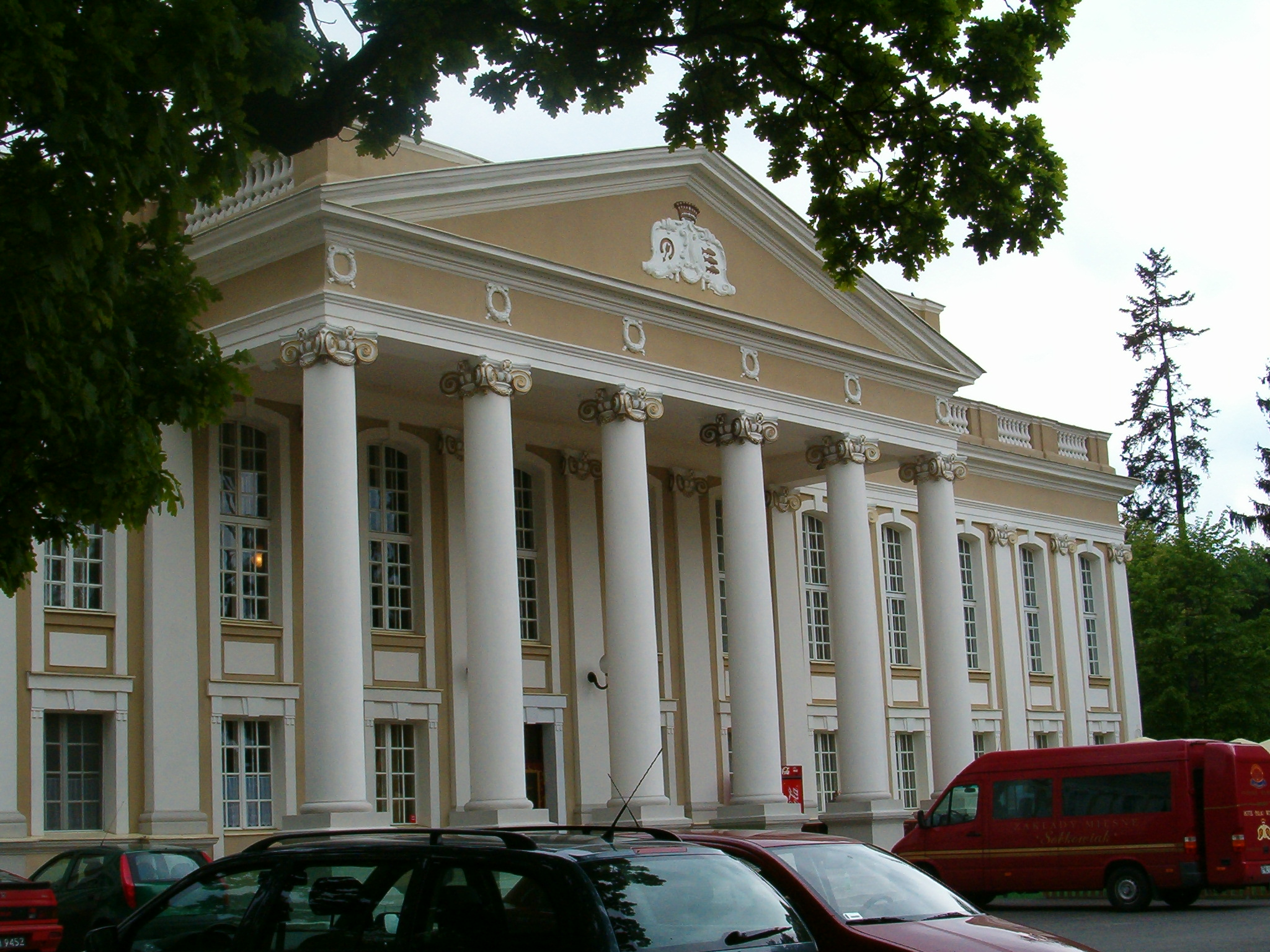 "Wolsztyn" Hotel, Poland